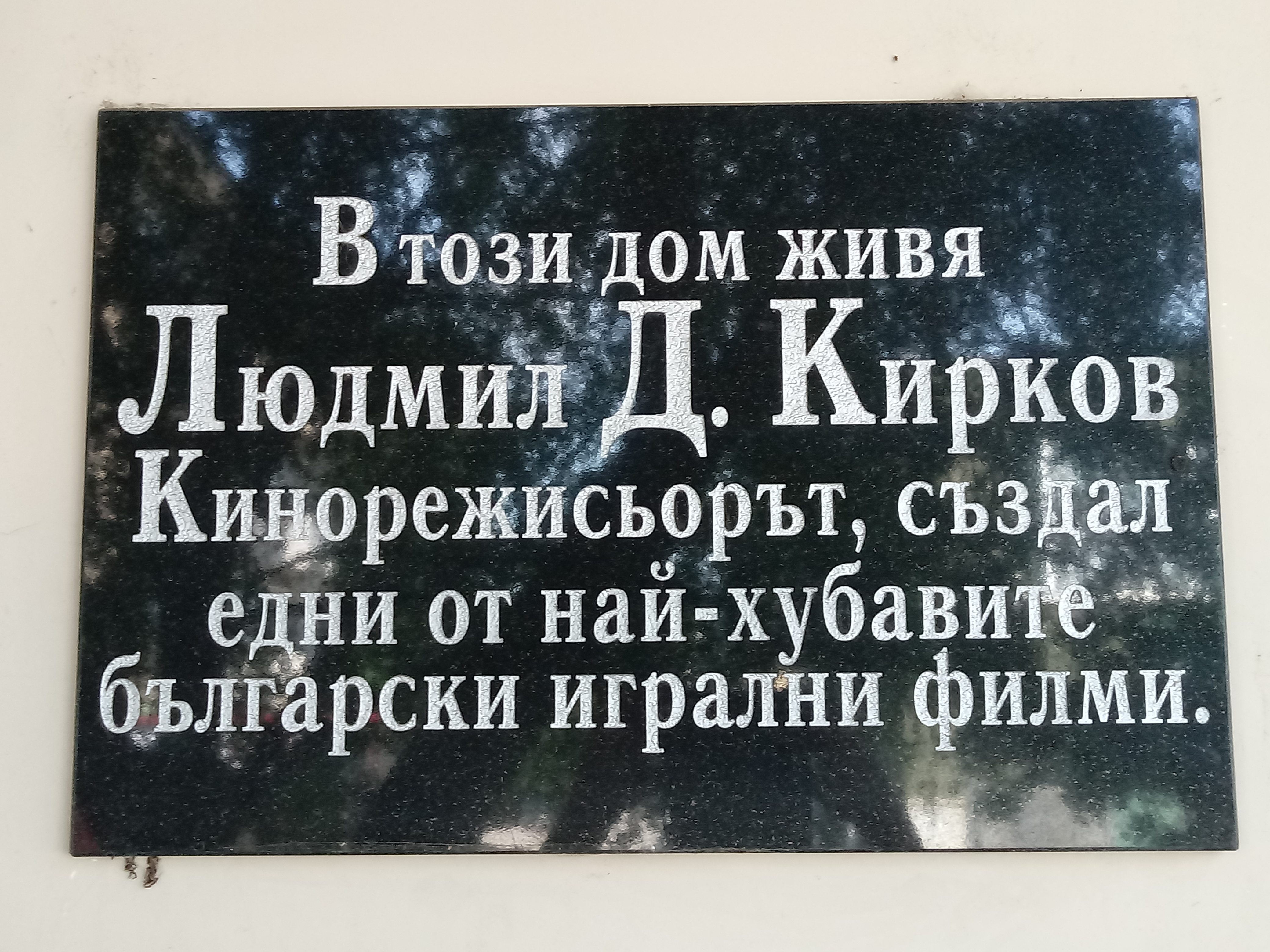 Lyudmil Kirkov memorial plaque - 2 Hemus Str., Sofia